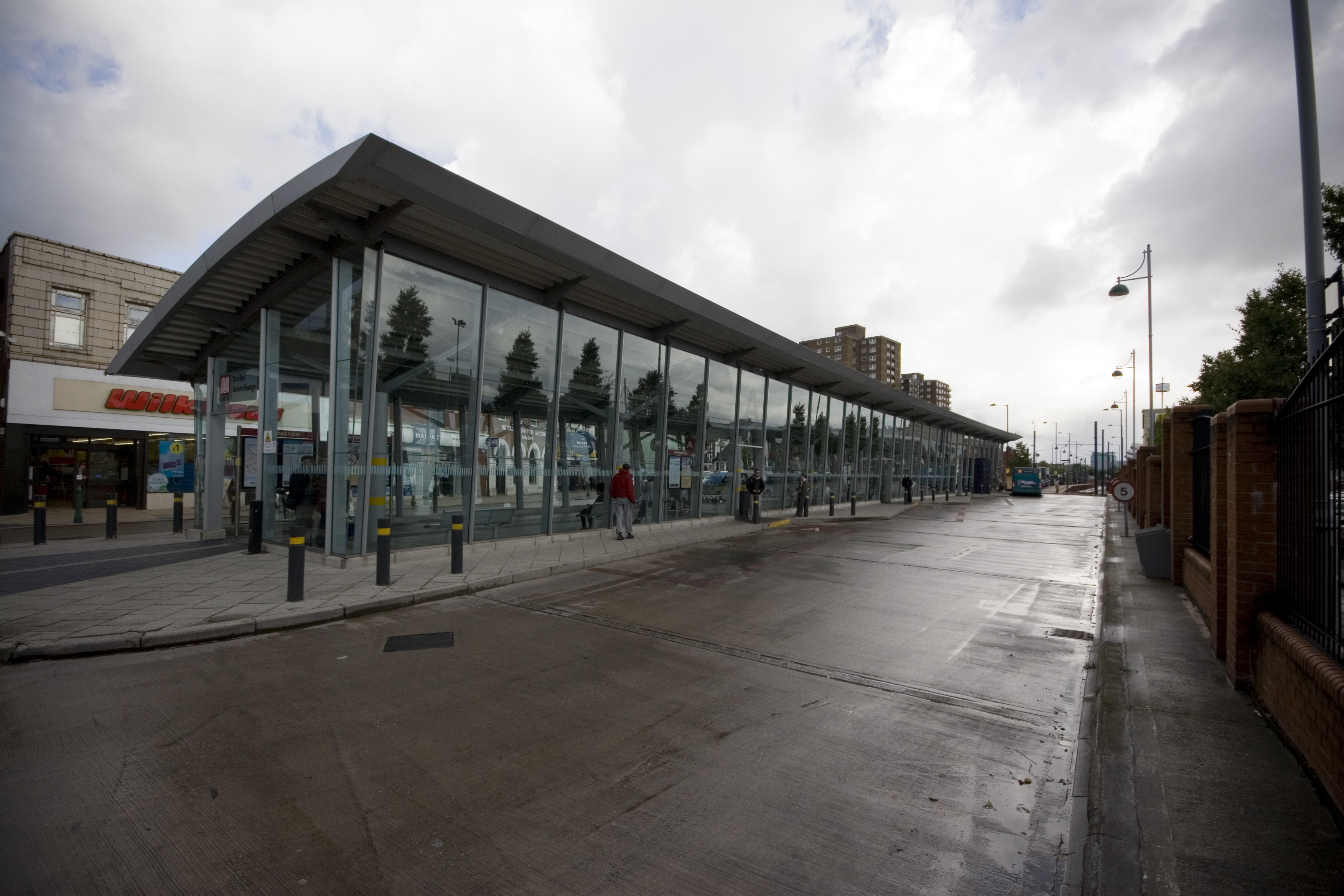 Eccles Interchange